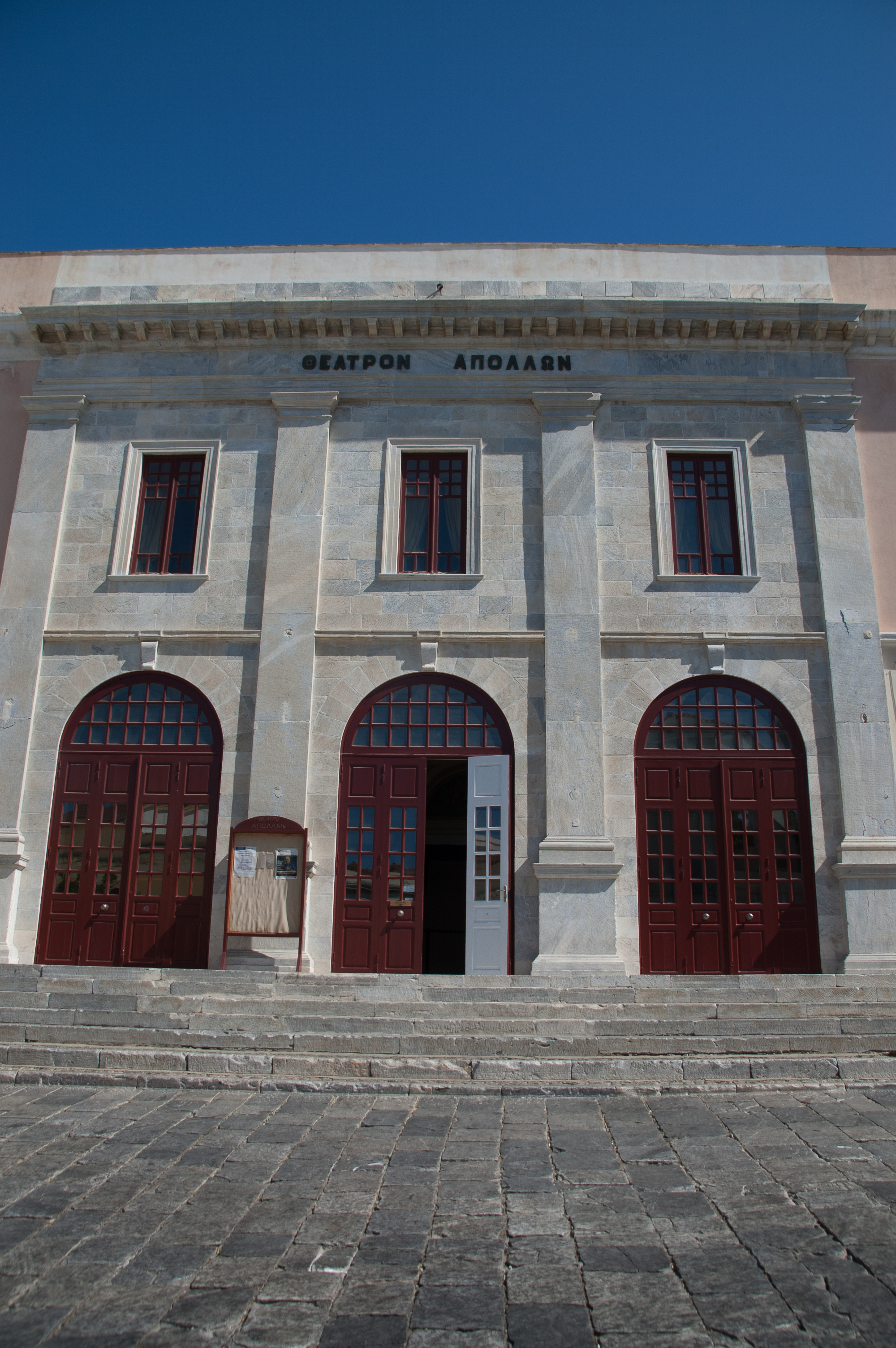 Apollon Municipal Theater